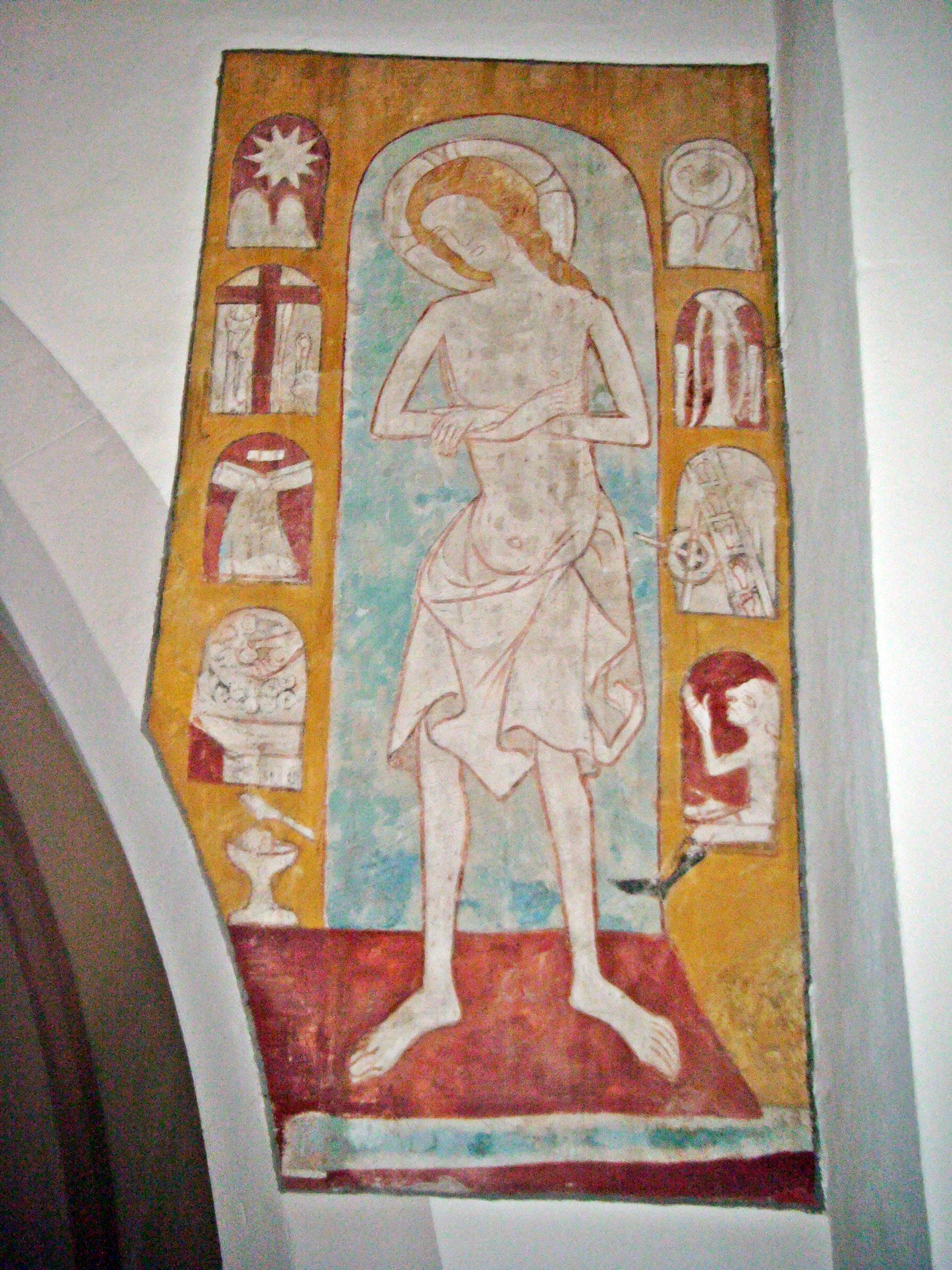 gotisches Erbärmdebild in der prot. Kirche Friedelsheim, um 1350